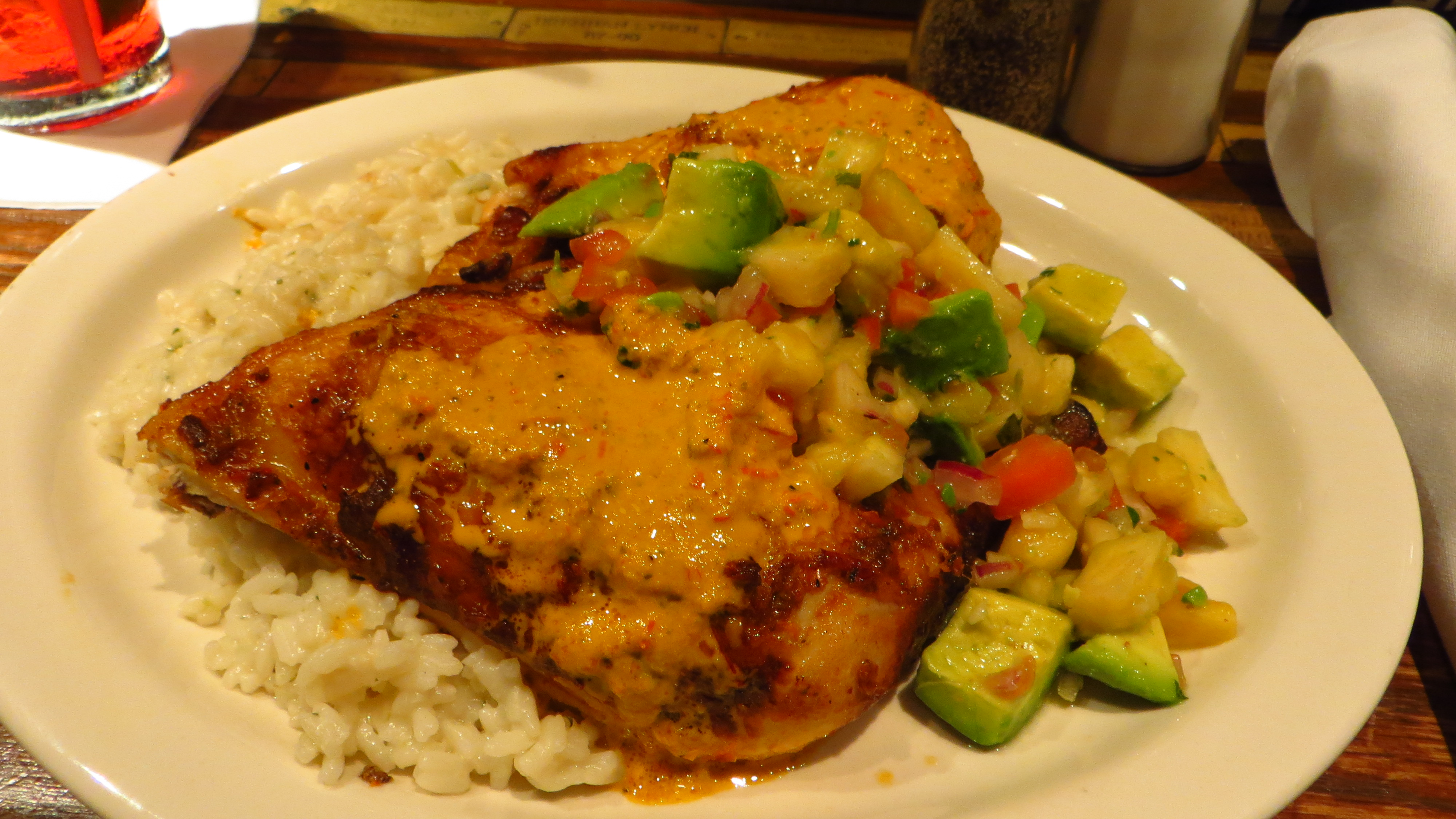 interesting Caribbean Chicken at Tombs Restaurant and Bar in Georgetown in Washington, DC. Half Chicken with Ajilimojili sauce, served on a bed of Coconut Rice with a side of Pineapple, Avocado and Coconut Salsa!